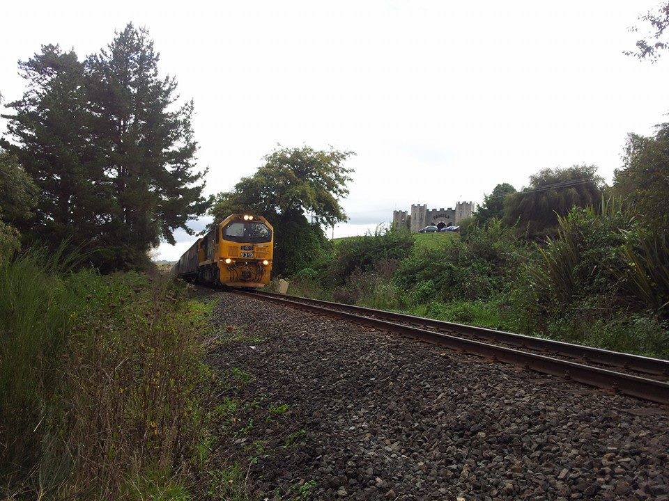 Kiwirail DL class locomotive passing Castle Pamela on the southern approach to Tirau, NZ